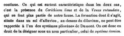 Text in which the Eemian interglacial is introduced